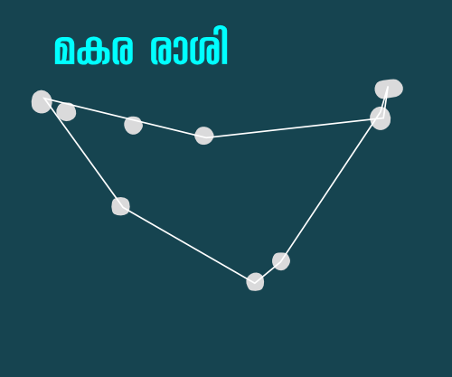 Capricorn Constellation Malayalam